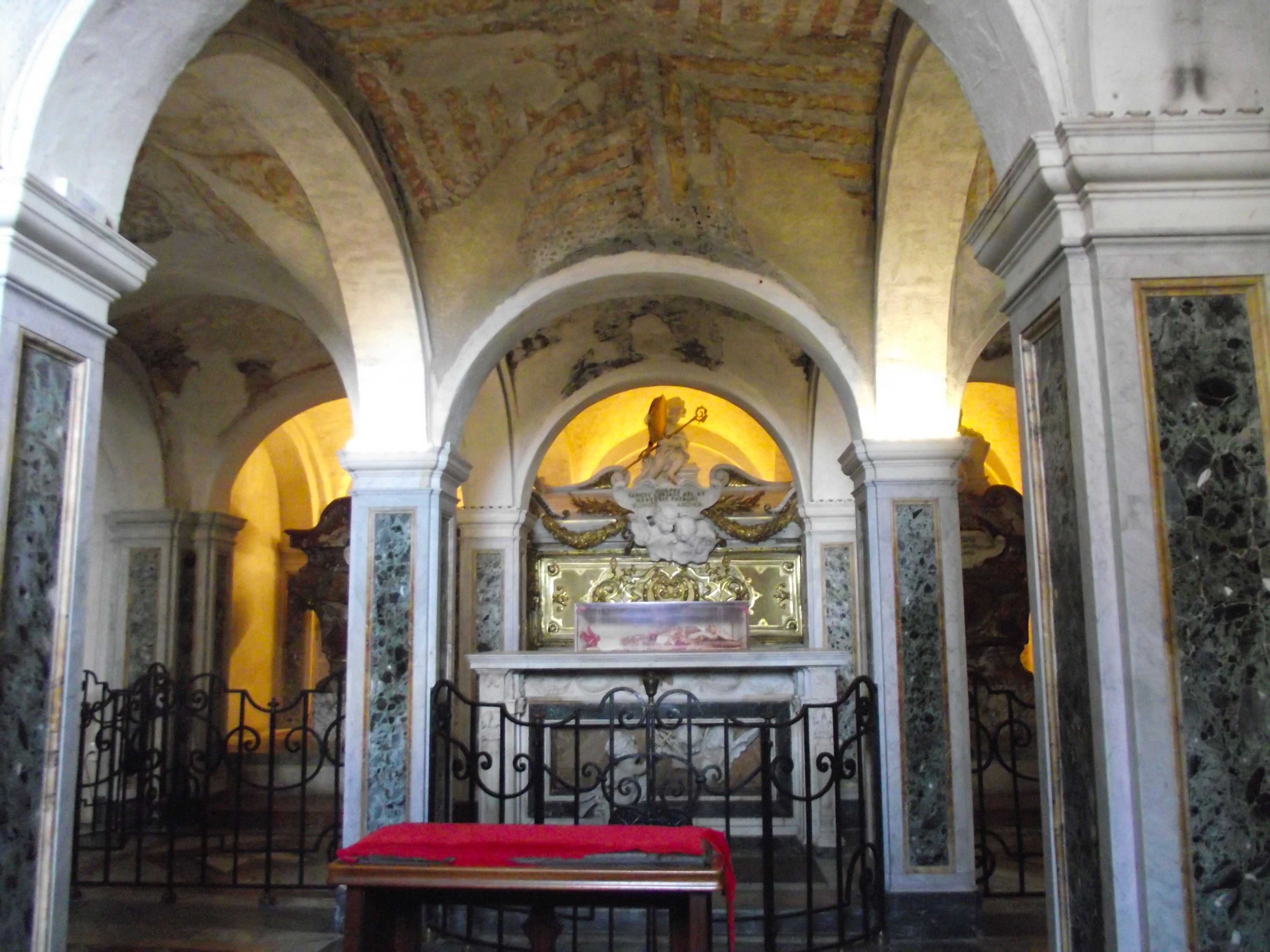 Ancona, Cathedral of St. Cyriacus, X-XII Century